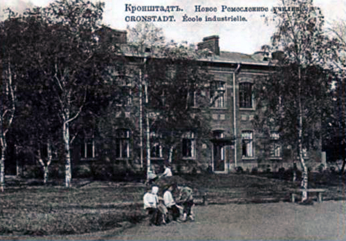 Vocational school in Kronstadt House of Diligence.